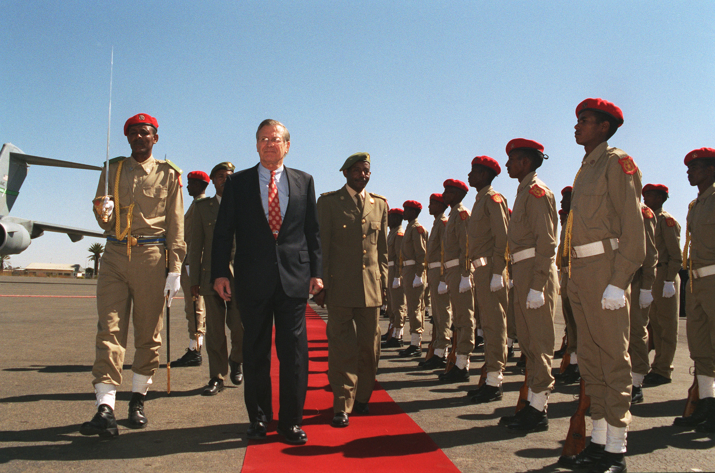 Secretary of Defense Donald H. Rumsfeld (center) and Minister of Defense Gen. Sebhat Ephraim (right) inspect troops during a welcoming ceremony on Dec. 10, 2002. Rumsfeld is in Asmara, Eritrea, to meet with leaders concerning defense issues of mutual interest.